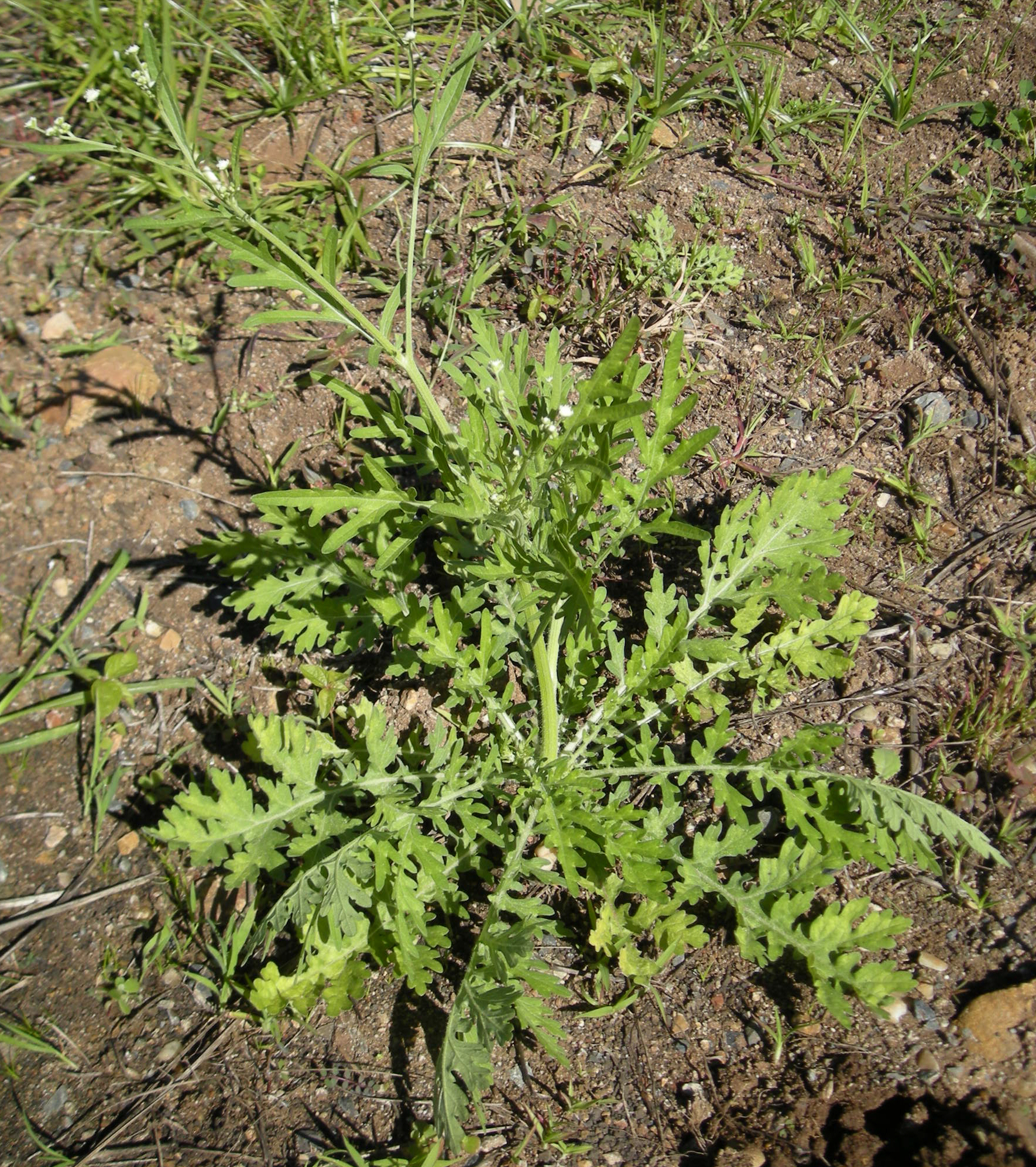 Parthenium hysterophorus plant with flowers, Central Queensland.